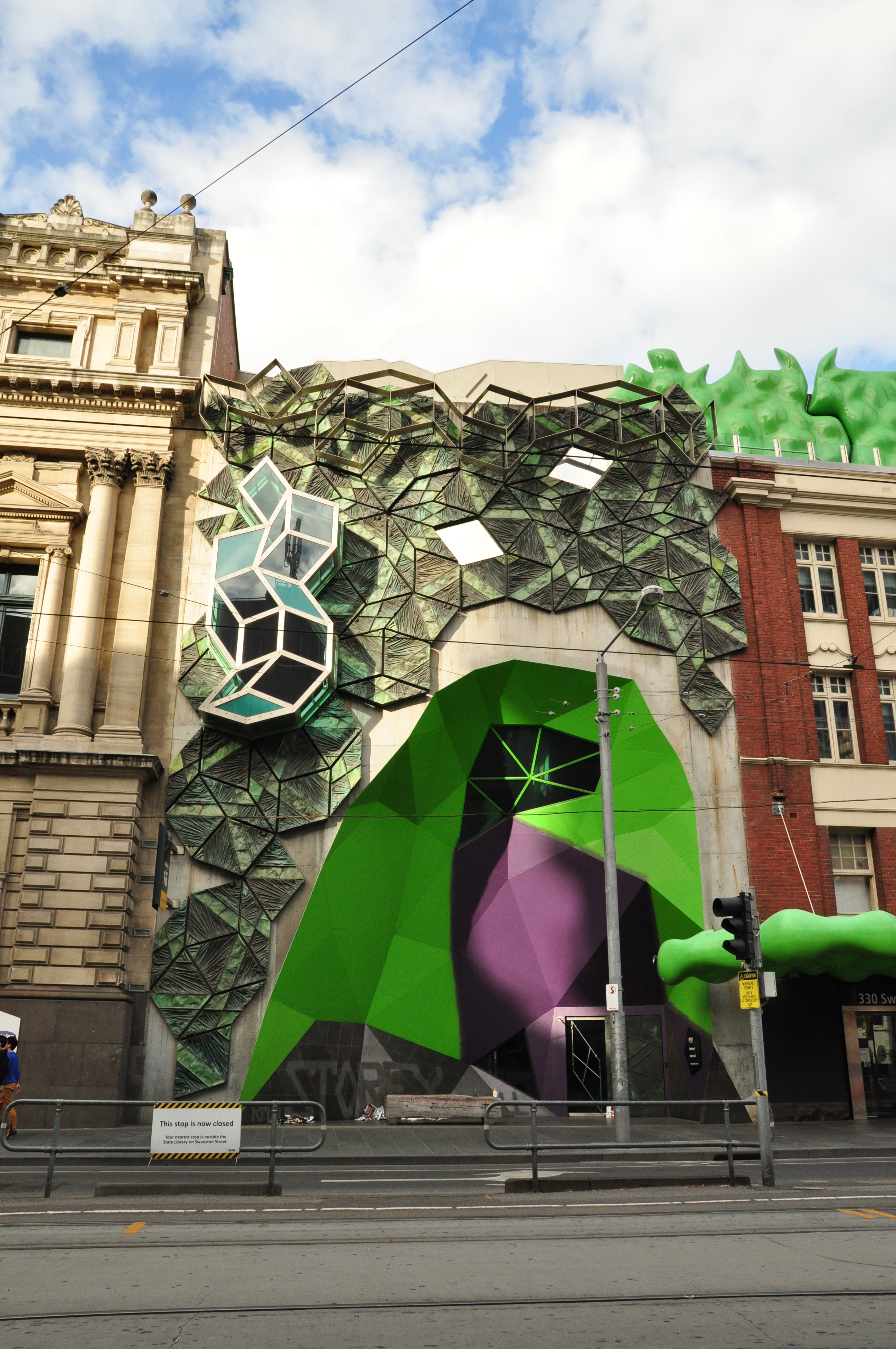 Front view of Storey Hall.